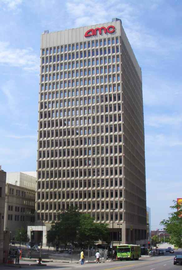 Ten Main Center (known as AMC Building), 920 Main Street, Kansas City, Missouri. The building was listed on the U.S. National Register of Historic Places in 2015.